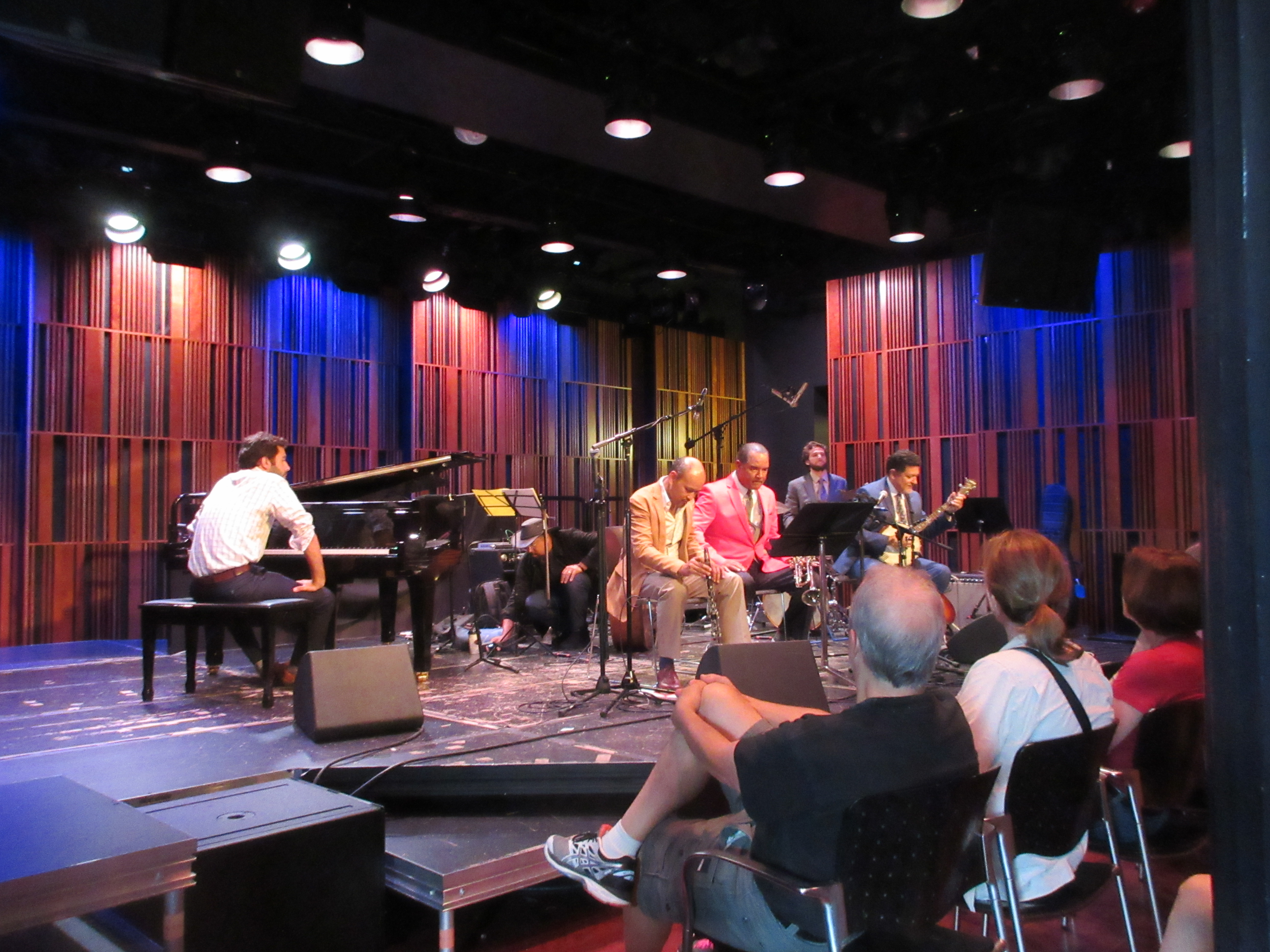 Jazz at the New Orleans Mint Museum. Evan Christopher Public Domain Project concert with guests Wendell Brunious and Papa Don Vappie. Photo by Infrogmation of New Orleans, 2018. Free reuse with author attribution in accordance with any of the licenses listed by the author/photographer. Reuse without photo attribution is a violation of copyright.